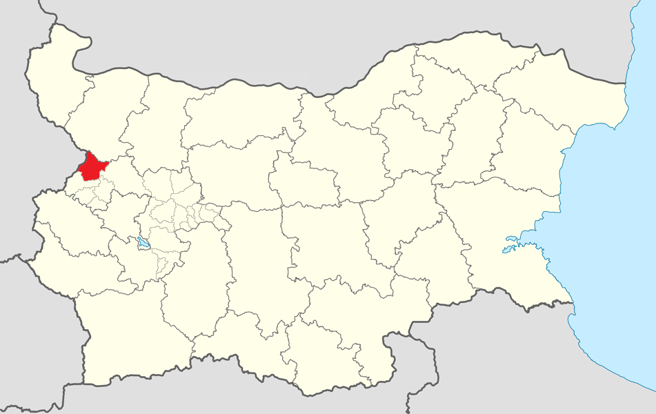 Location map of Godech Municipality within Bulgaria and Sofia province